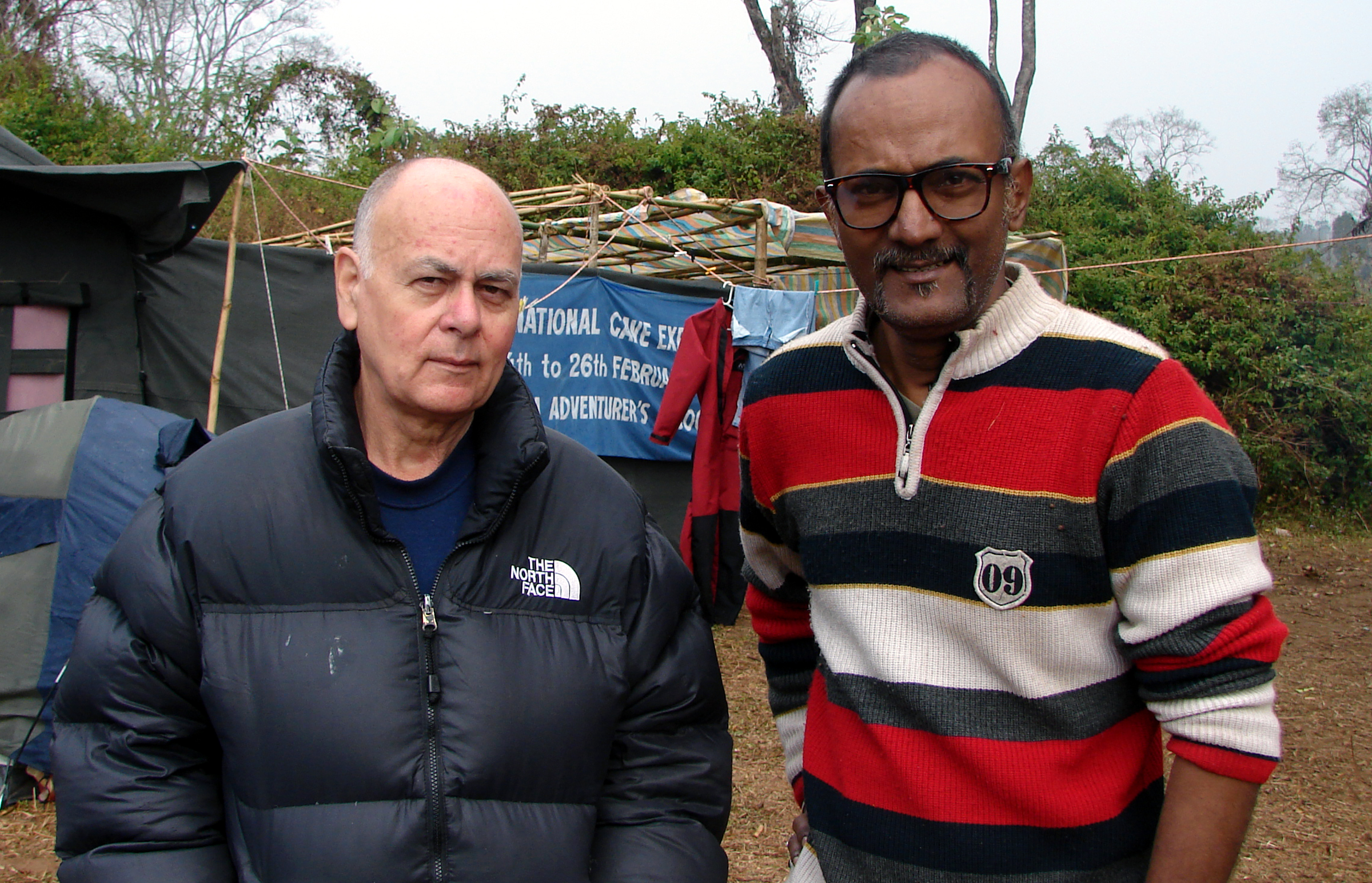 Brian Dermot Kharpran Daly (Left) Founder and General Secretary of Meghalaya Adventurer Association and Dr. Jayant Biswas (Right) Founder President and Notable Cave Researcher of India